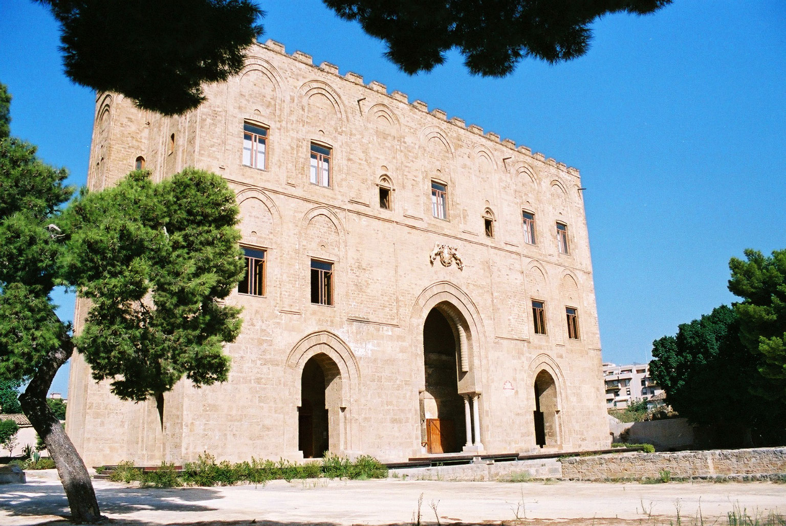 Zisa, Palermo, General view